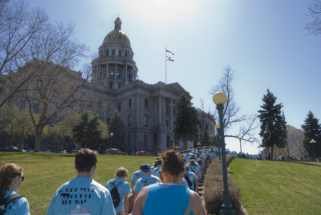 The 2010 E-Days march for the Colorado School of Mines